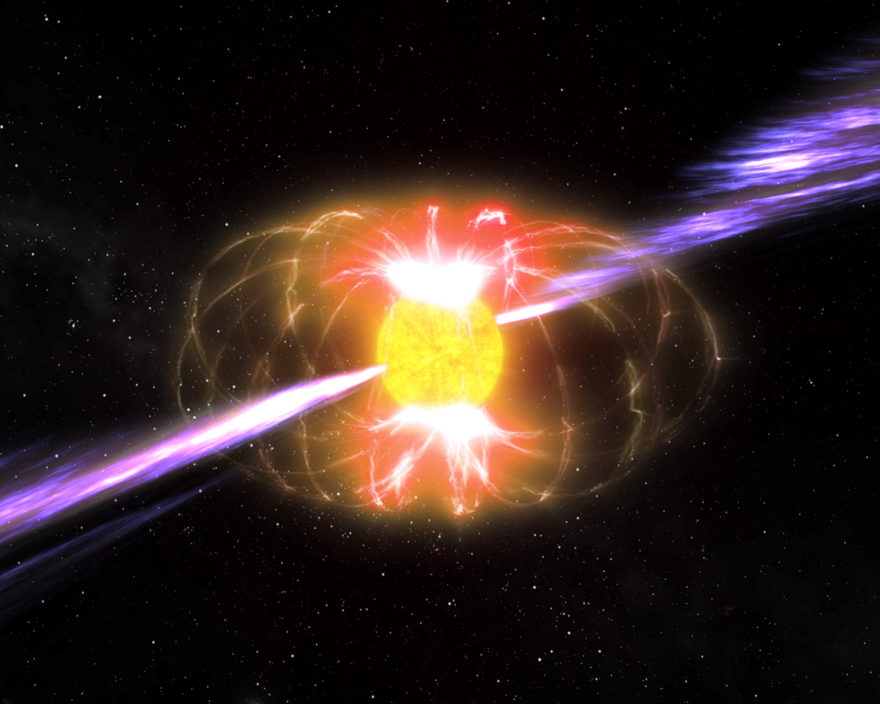 A US-Australian research team found that a “magnetar" – a kind of star with the strongest magnetic fields known in the Universe – is giving off extraordinary radio pulses, which links this rare type of star with the much more common “radio pulsars". The object in question is a neutron star – a small star made of extremely dense “neutron matter" – called XTE J1810-197. It lies about 10,000 light-years away in the constellation Sagittarius. The Parkes observations found it to be emitting radio pulses at every turn of the star, or every 5.54 seconds. These pulses have now been confirmed and studied with other telescopes in Australia, the USA and Europe.